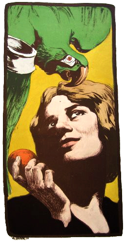 Woman with Parrot (illustration for Jugend, reprinted for L'Estampe moderne)